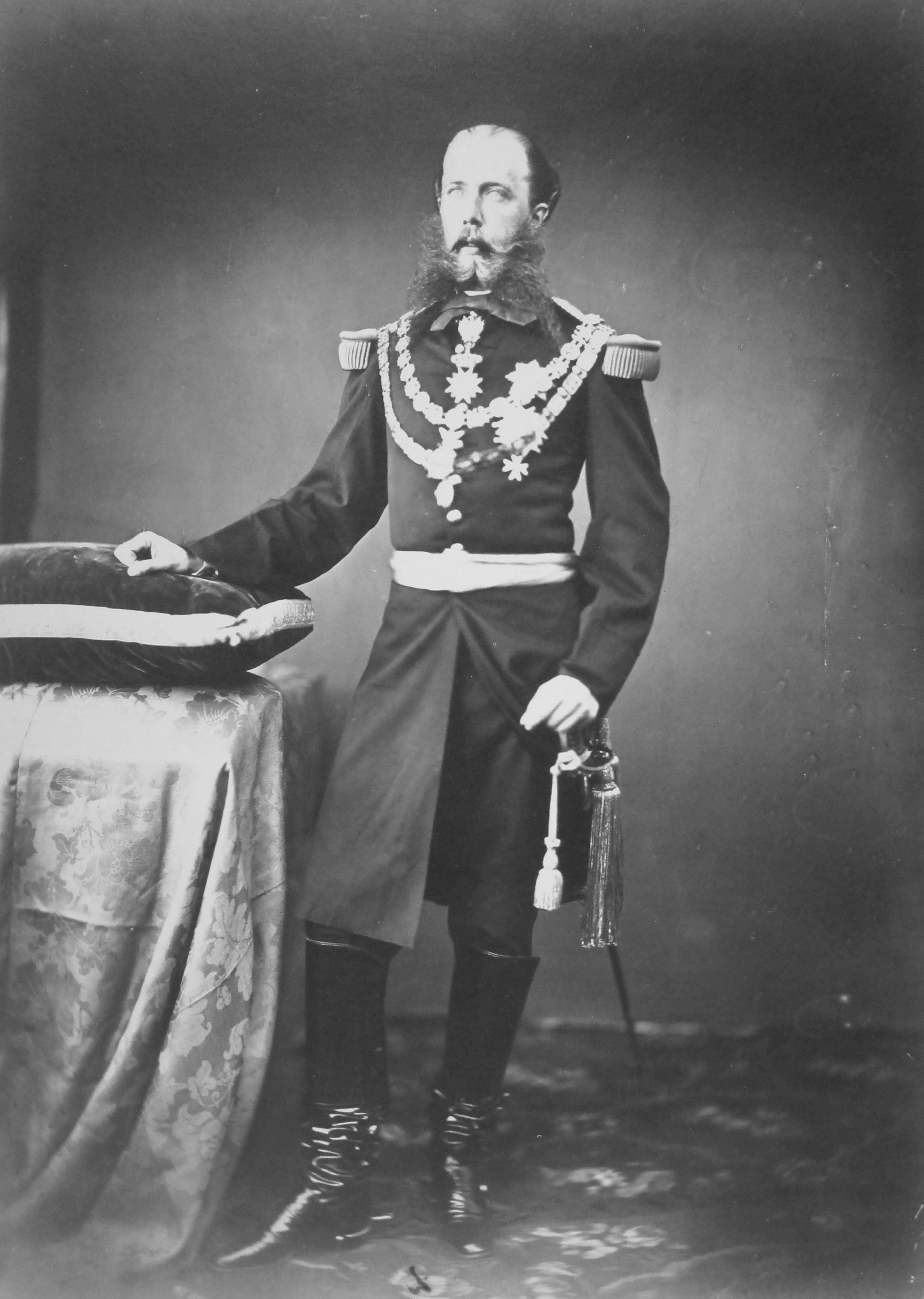 Emperor Don Maximiliano I of Mexico (1832-1867)